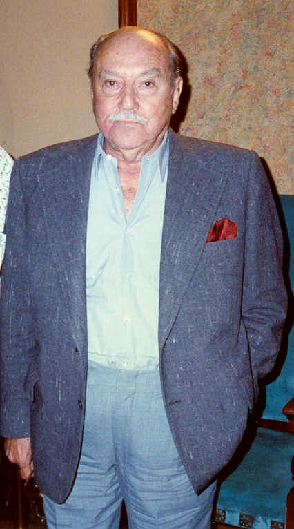 Photo taken at the 40th Emmy Awards, August 1988 - Rehearsal - Gale Gordon was an old time radio actor and TV actor in The Lucy Show with Lucille Ball - Permission granted to copy, publish or post but please credit "photo by Alan Light" if you can